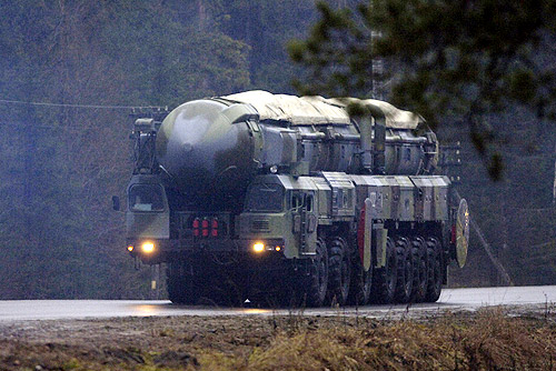 TEIKOVO, IVANOVO REGION. Mobile ground-based RT-2PM Topol (7-axis launcher) missile complex on the road.